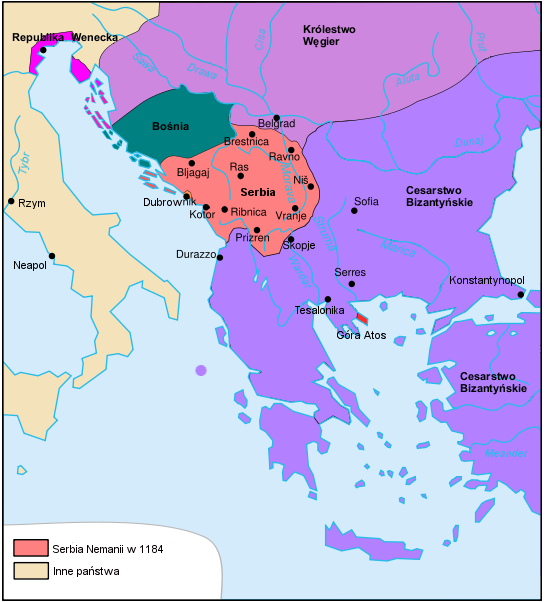 Serbia of Nemania about 1184